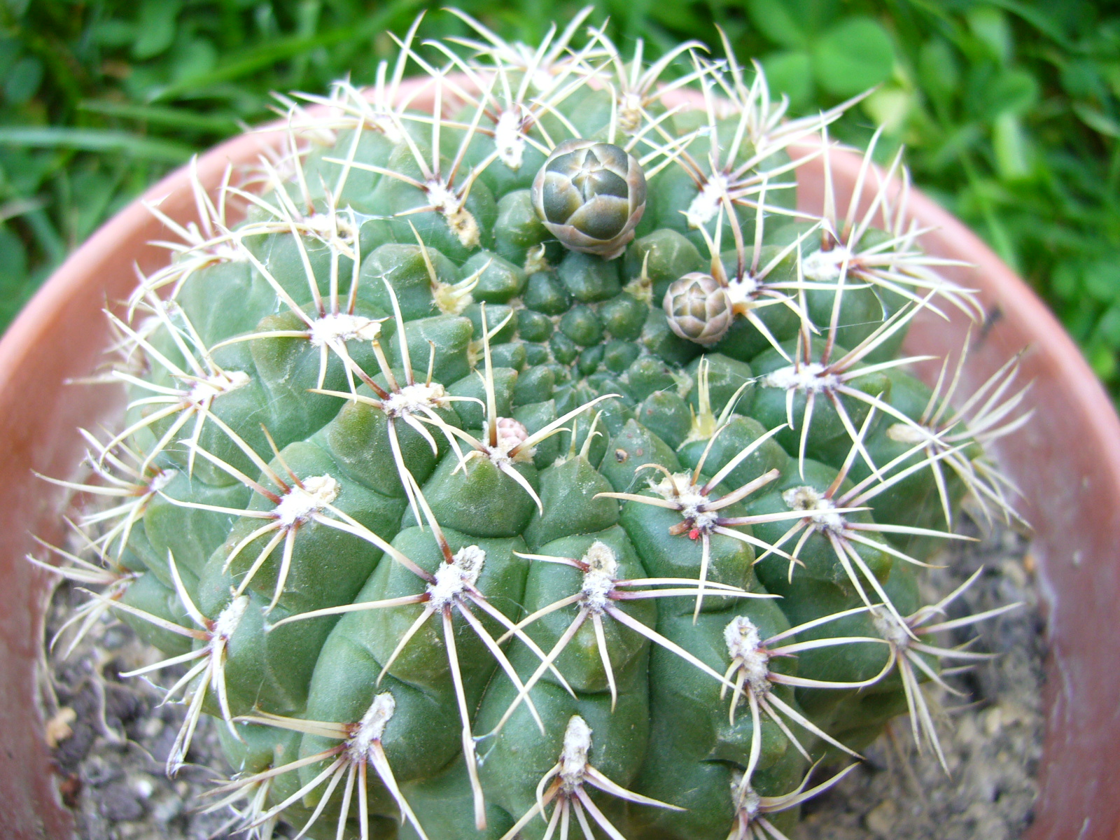 Gymnocalycium baldianum avec bouton floral